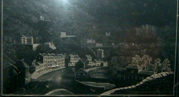 Matlock Bath engraved on Asford Black Marble by Ann Rayner and now in Buxton Museum